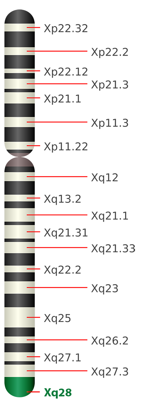 Ideogram of the human chromosome XChromosome X - Xq28